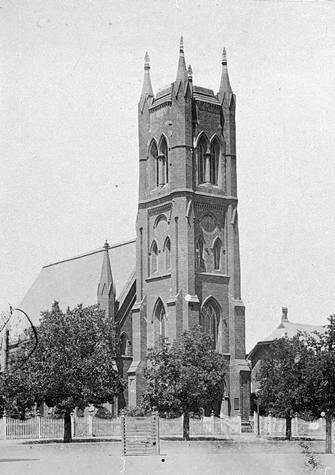 Old photograph of St Paul's Cathedral, Bendigo, Australia